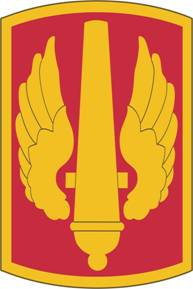 18th Fires Brigade Shoulder Sleeve Insignia